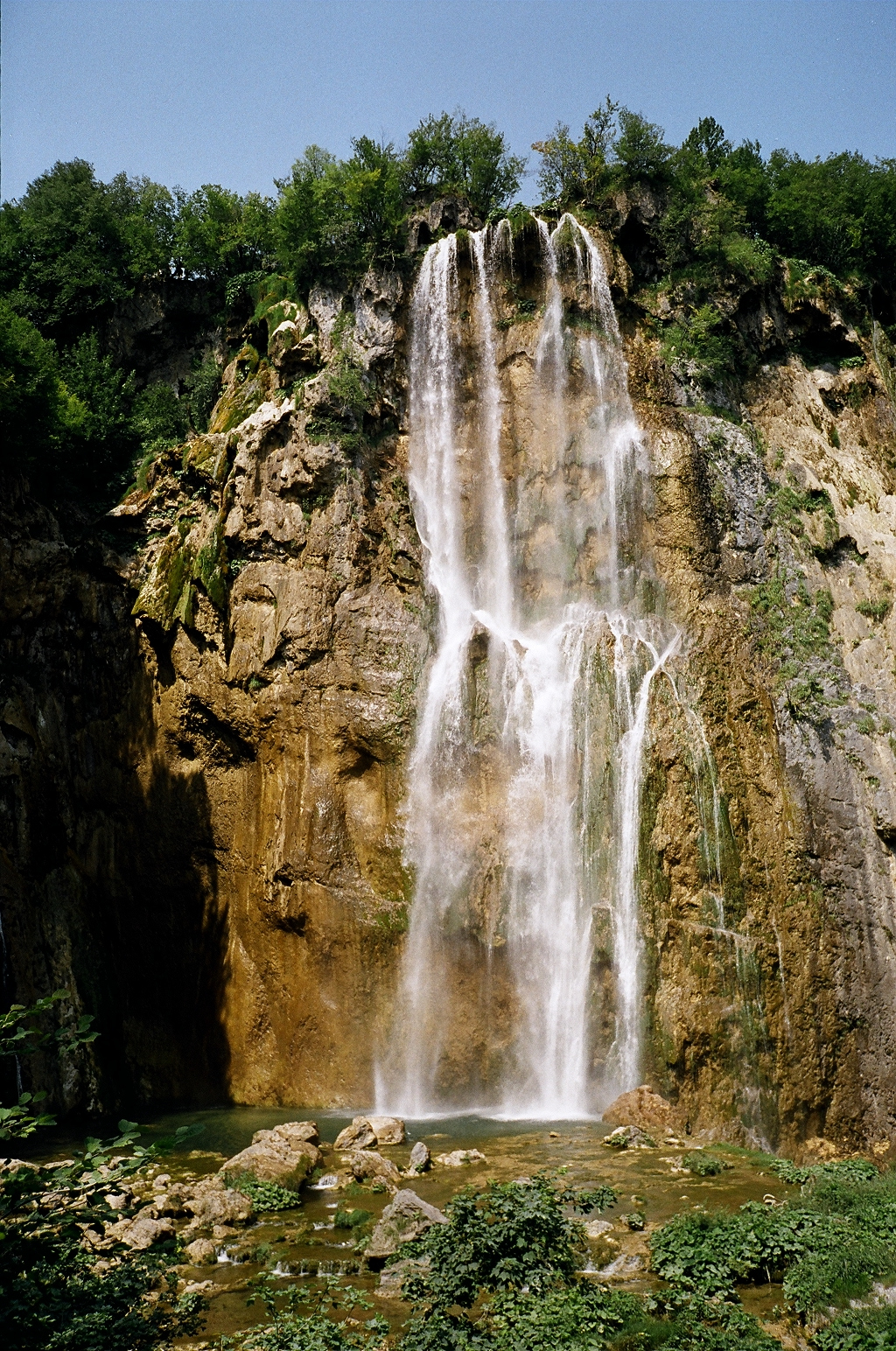 Plitvice national park